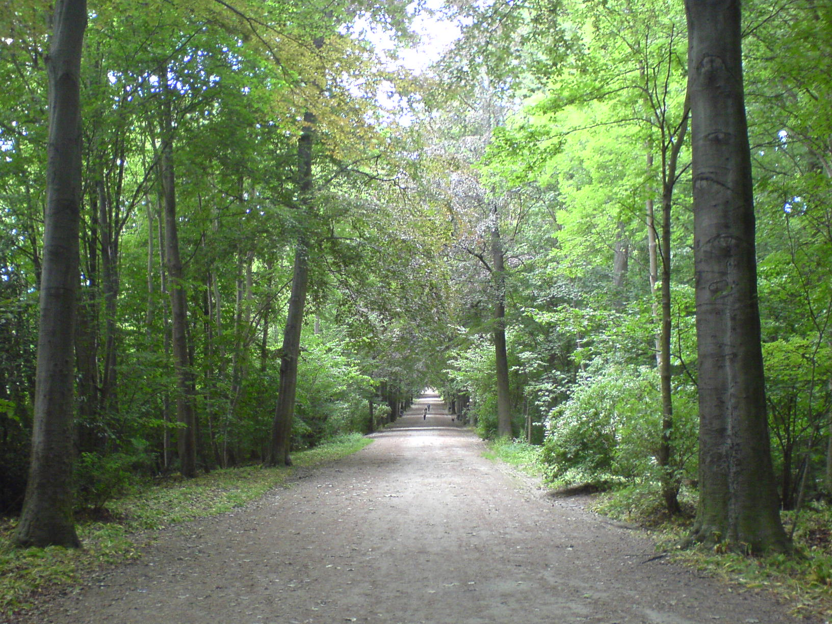 Beech along path in Dieleghem forest.